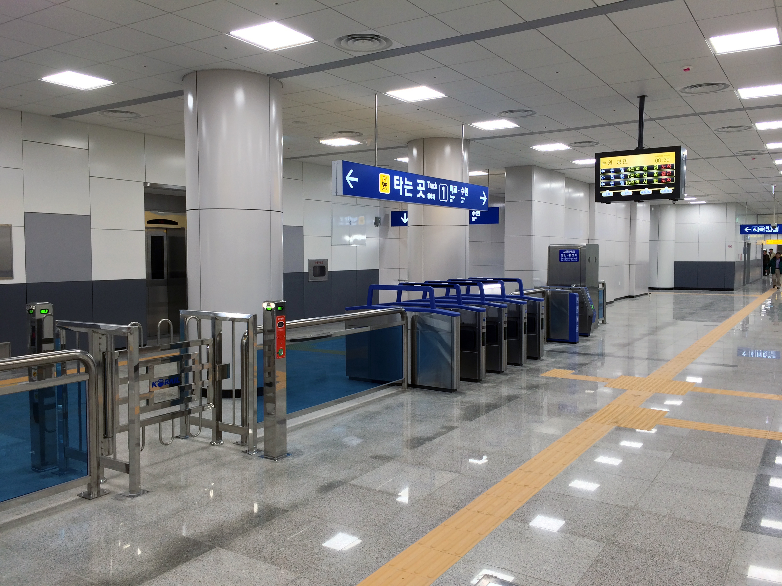 Ticket gate of Suwon City Hall Station